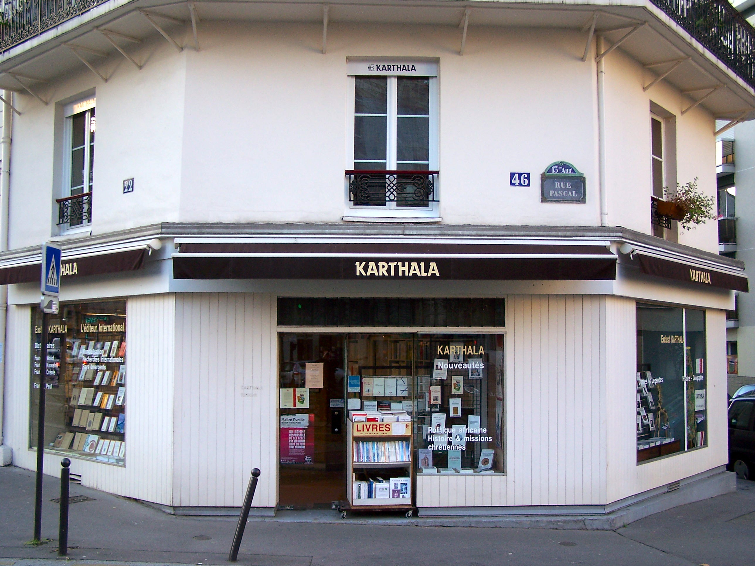 Headquarters of Karthala publishers and bookshop at boulevard Arago in Paris, France